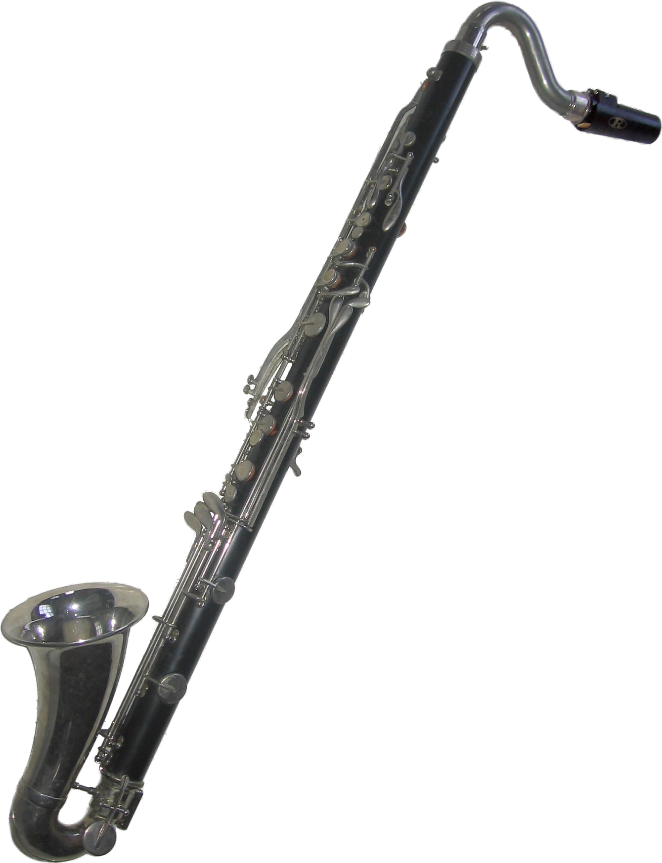 A Bundy bass clarinet: plastic, to low E♭.